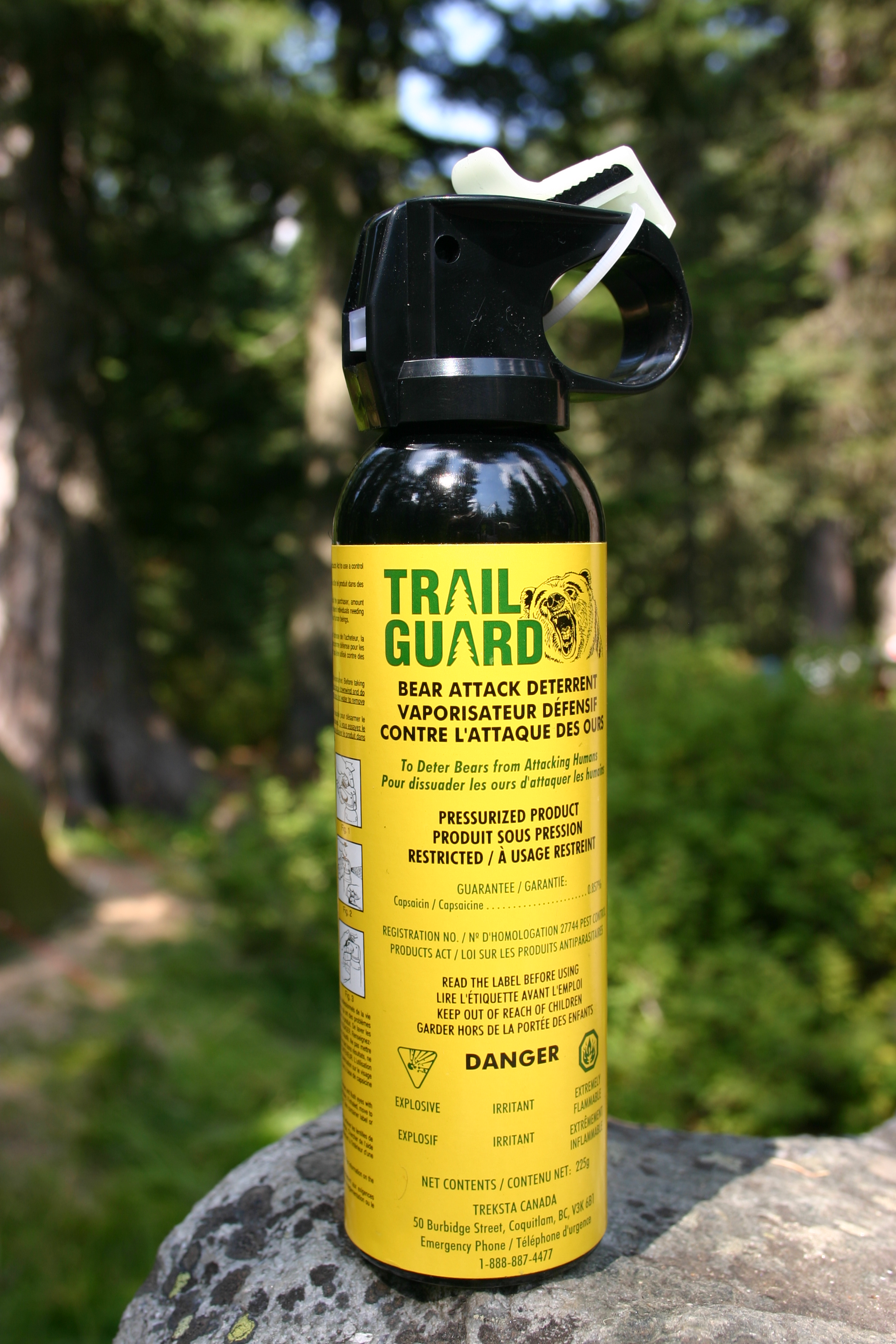 Photograph of bear attack deterrent spray. Bought in British Columbia, Canada. Height: approximately 20 cm. The white clip on top prevents from accedentially firing the spray. It is made of a phosphorescent material and is therefore clearly visible at night.